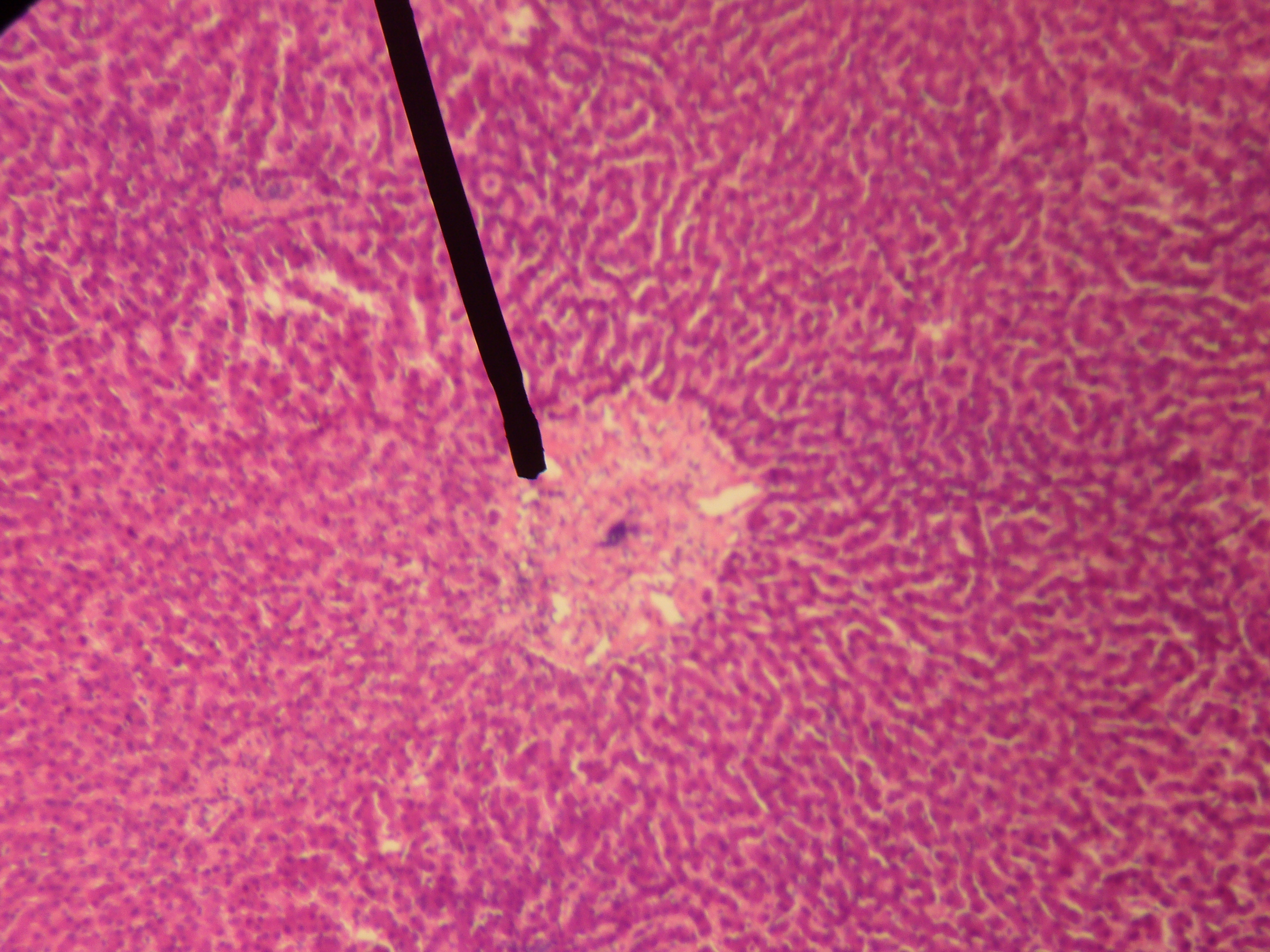 Author's own picture. Digital camera shot of human central vein through a microscope.